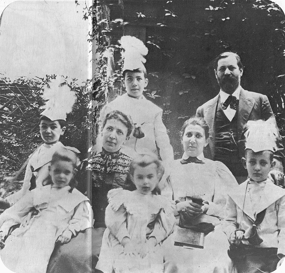 Photograph of the family of Sigmund Freud. Front row: Sophie, Anna and Ernst Freud. Middle row: Oliver and Martha Freud, Minna Bernays. Back row: Martin and Sigmund Freud.